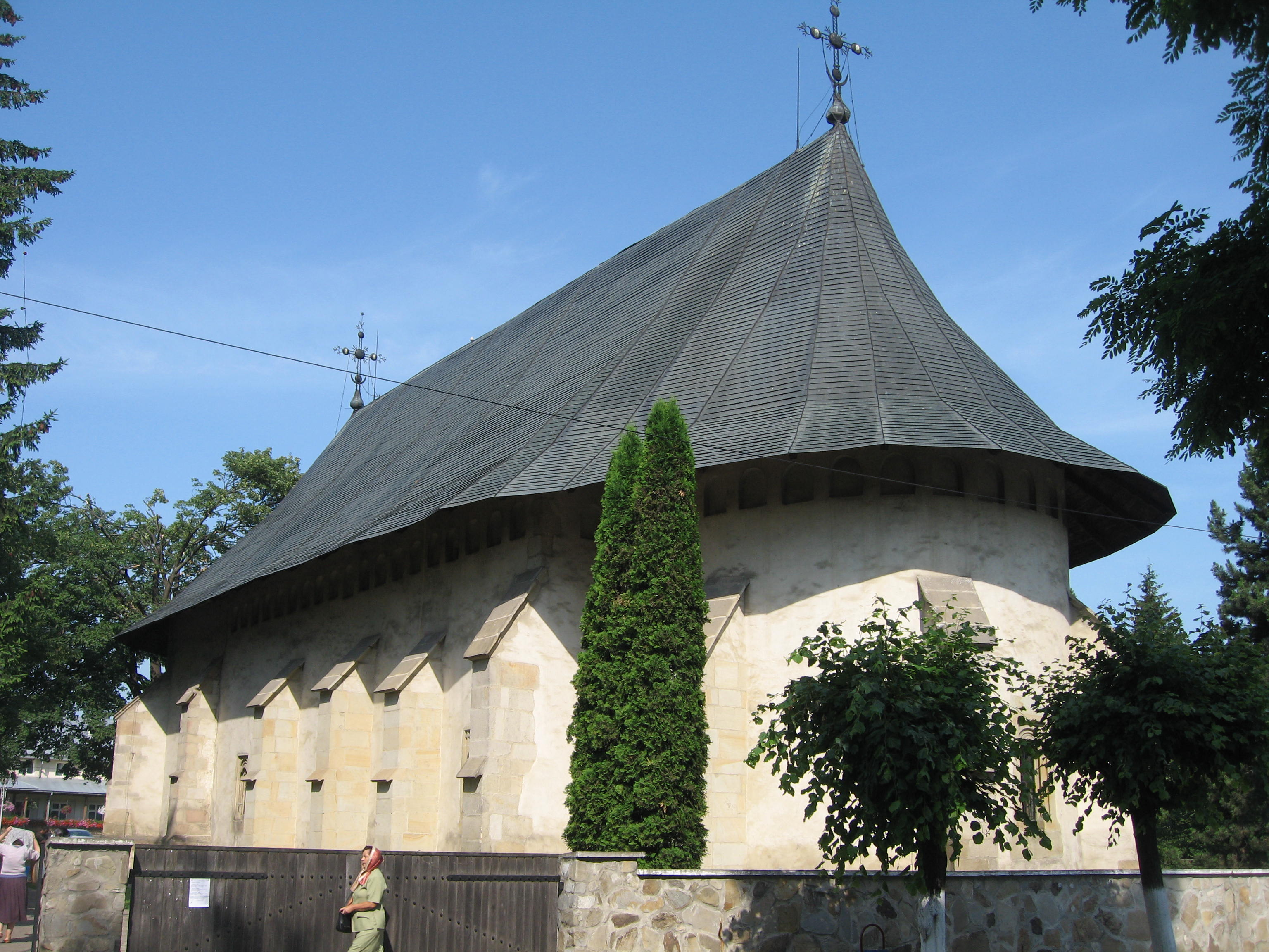 Bogdana